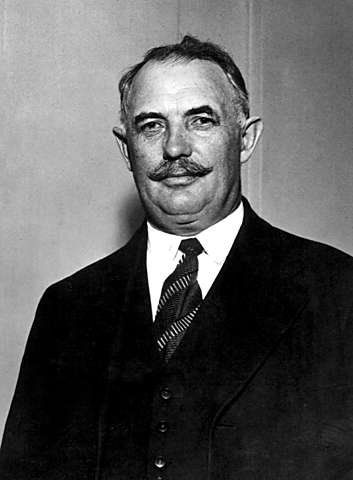 Axel Pehrsson-Bramstorp, Prime Minister of Sweden 1936.